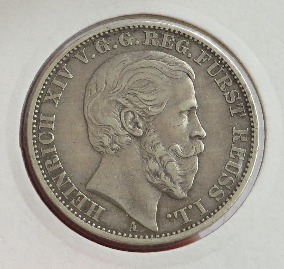 Vereinstaler Reuss Gera 1868 obverse. Coinowner gave this photo special for use in article of wikipedia.